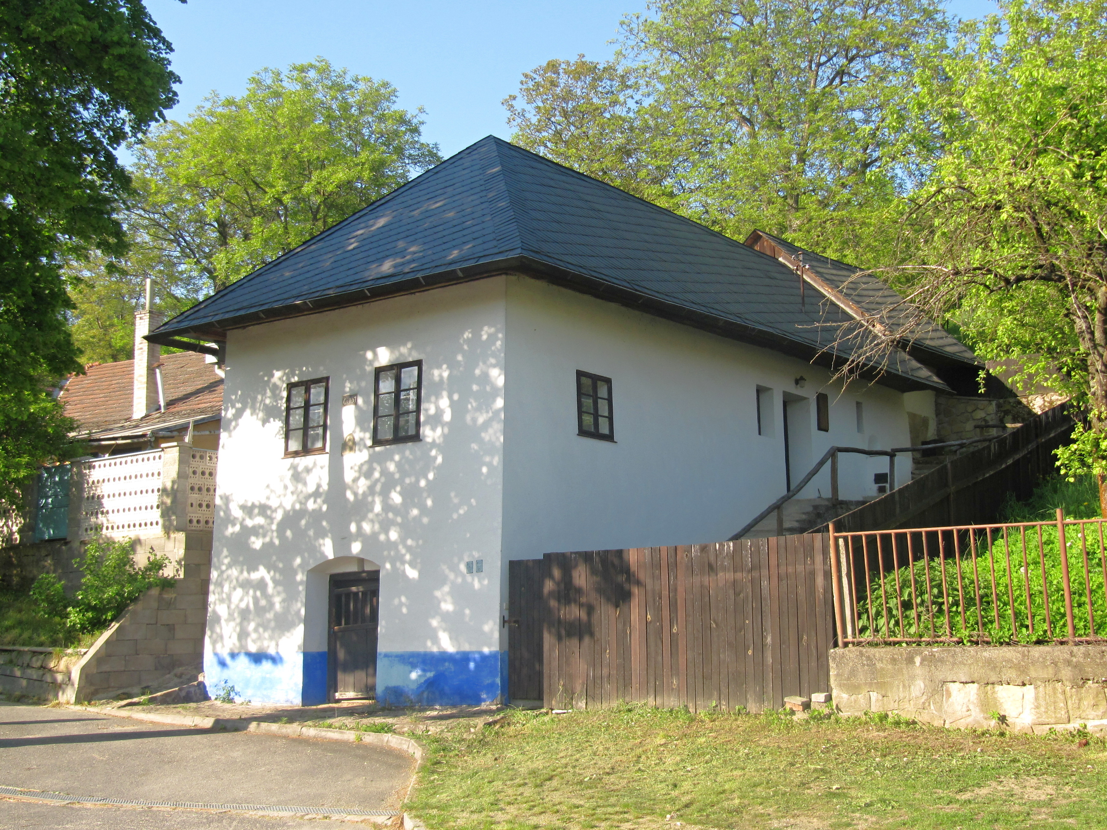 Břestek in Uherské Hradiště District, Czech Republic. Listed house Nr. 157.